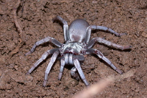 female Calisoga sp. from northern California.